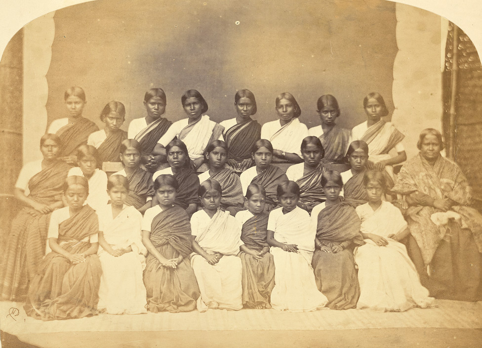 Photograph of a group of 24 girls and their teacher at the London Mission Girls' Boarding School, Bangalore, taken by Henry Dixon in the 1860s. This photograph is from the Archaeological Survey of India Collections and was shown at the 1867 Paris Exhibition. The state of Mysore was one of the most progressive regions in pre-independent India. It was a pioneer in establishing modern systems of education; the London Mission was the first school for girls in Mysore, established in Bangalore city in 1840. The photographer was Capt. Henry Dixon of the 22nd Regiment, Madras Native Infantry.